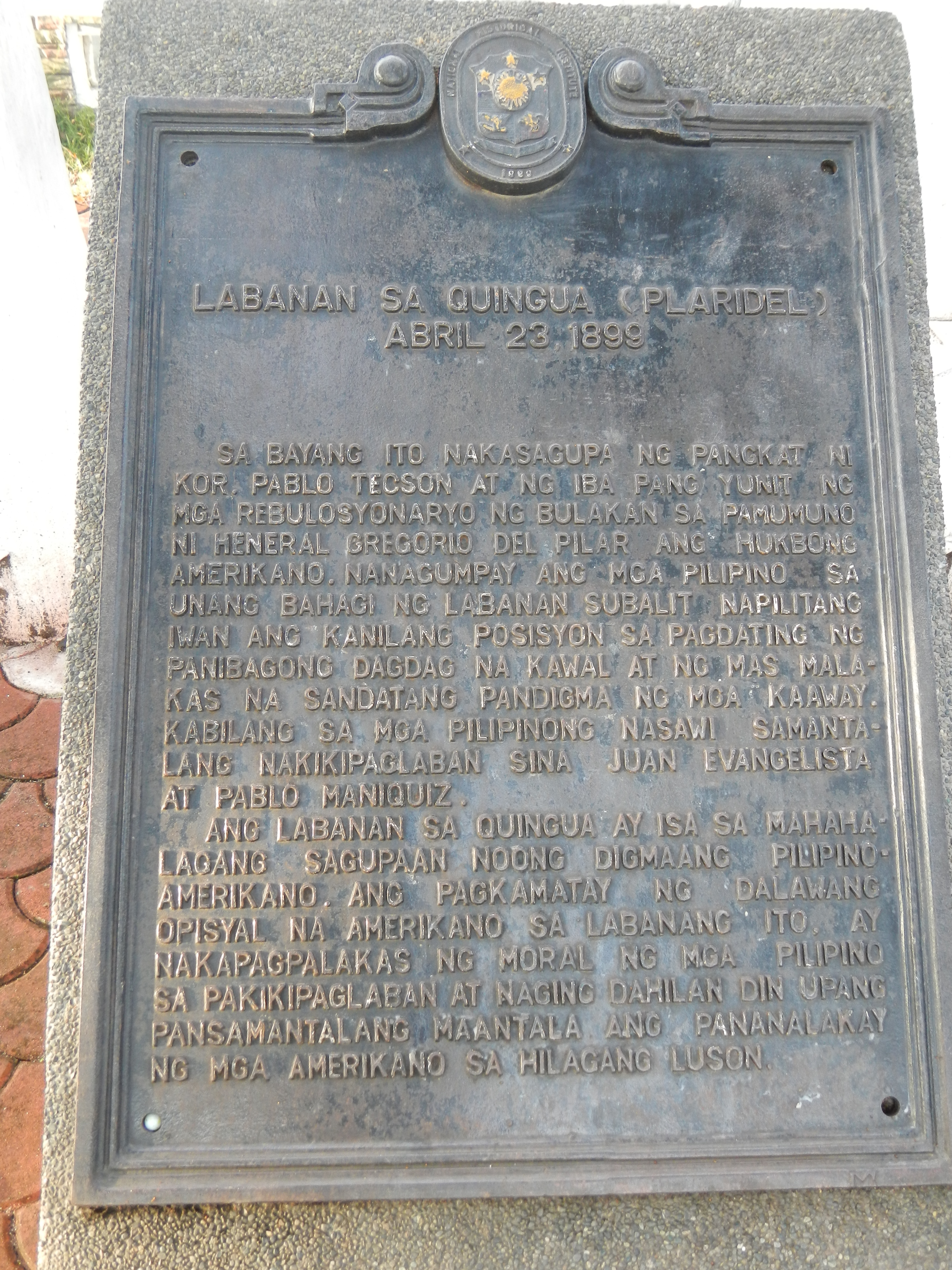 Battle of Quingua[1] John M. Stotsenburg[2]